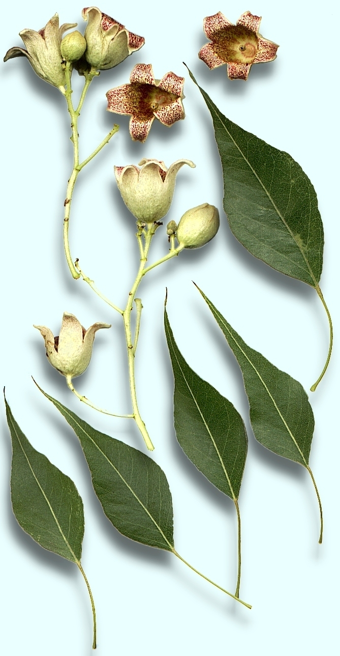 Kurrajong flower and foliage details. Material from ornamental garden plant, Pretoria, South Africa